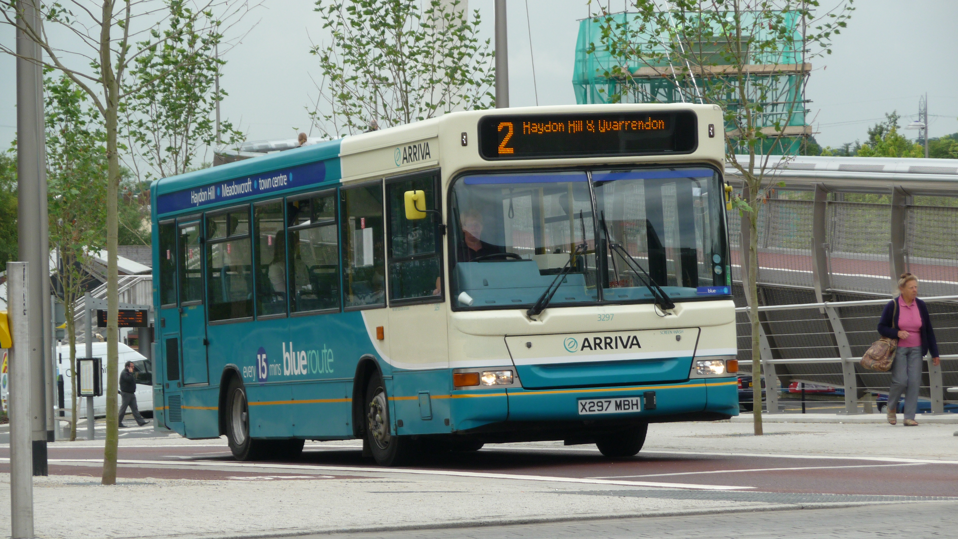 Arriva The Shires 3297 (X297 MBH), a Dennis Dart SLF/Plaxton Pointer 2 MPD, in Station Way, waiting for the traffic lights to change so it could cross Friarage Road, into Great Western Street/Aylesbury bus station, Aylesbury, Buckinghamshire, on Blue Route 2, part of the Aylesbury Rainbow Routes network, supported by Buckinghamshire County Council.